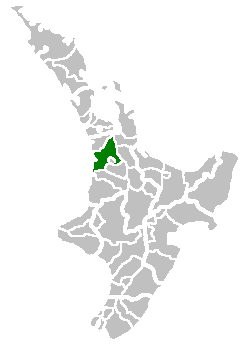 Waikato Territorial Authority (Waikato District).